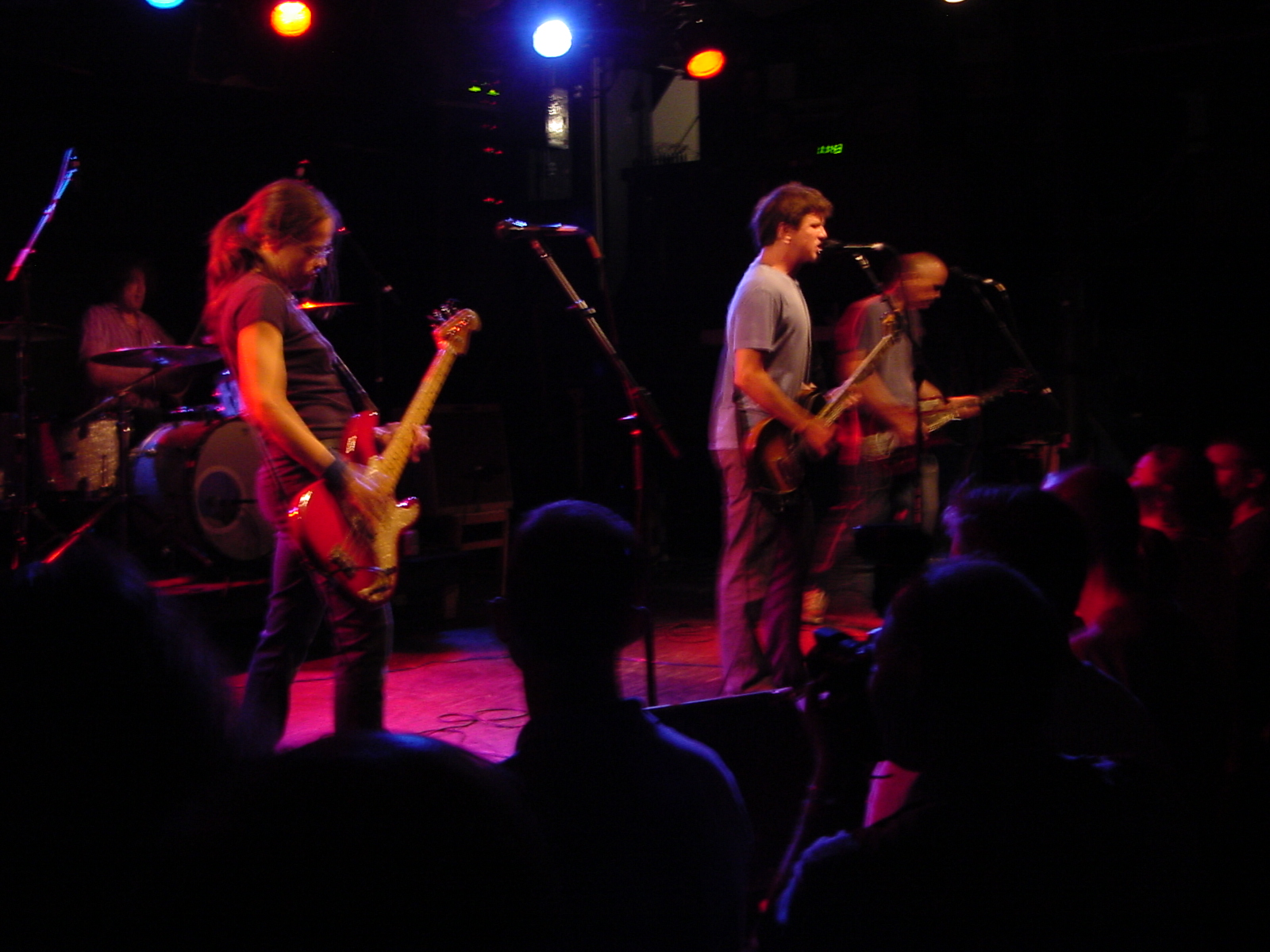 Superchunk live at Cat's Cradle, Carrboro, NC. September 1, 2006.